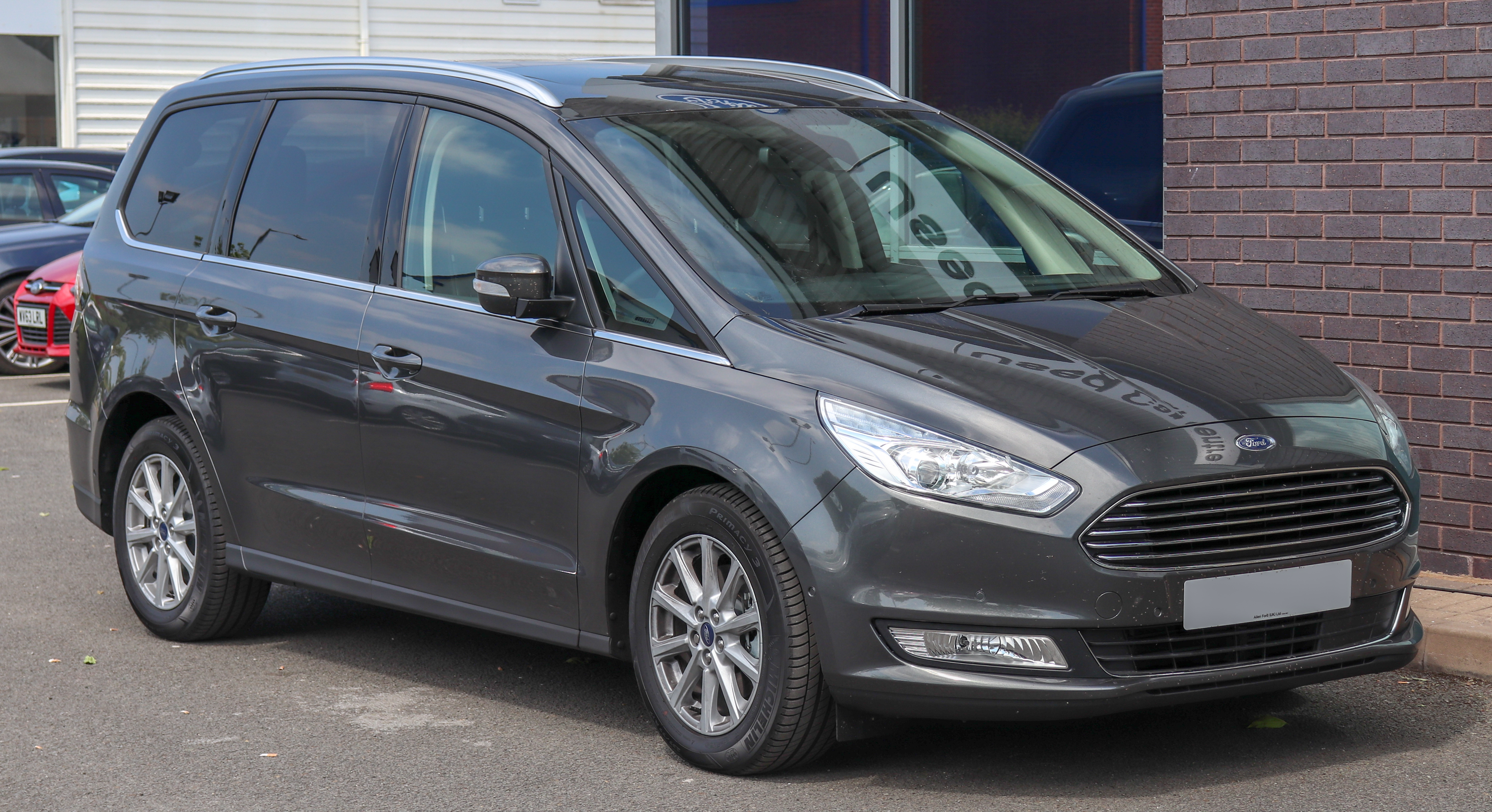 2018 Ford Galaxy Titanium X TDCi 2.0 Front Taken in Leamington Spa